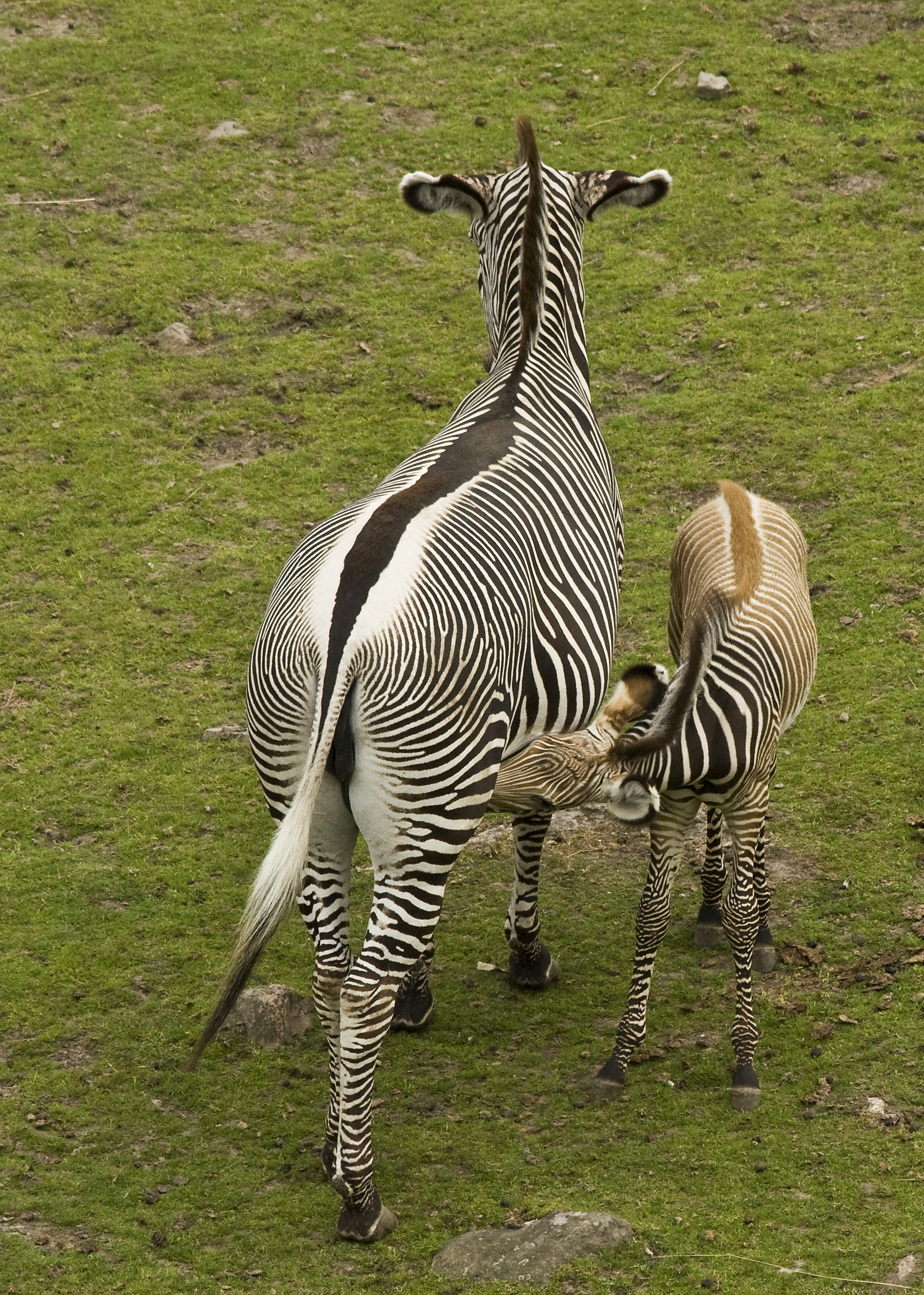 A Grévy's zebra (Equus grevyi) with foal. Kolmårdens djurpark, Sweden.